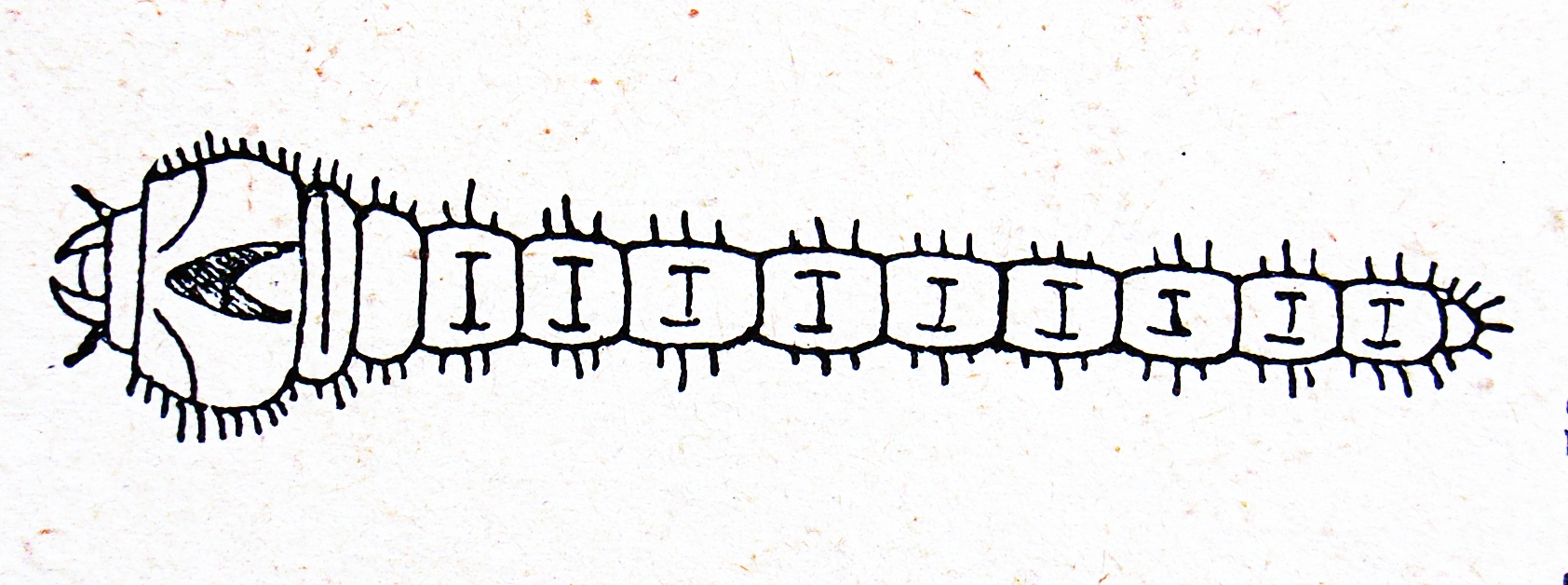 Larva of Buprestis species